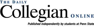 Header logo used on